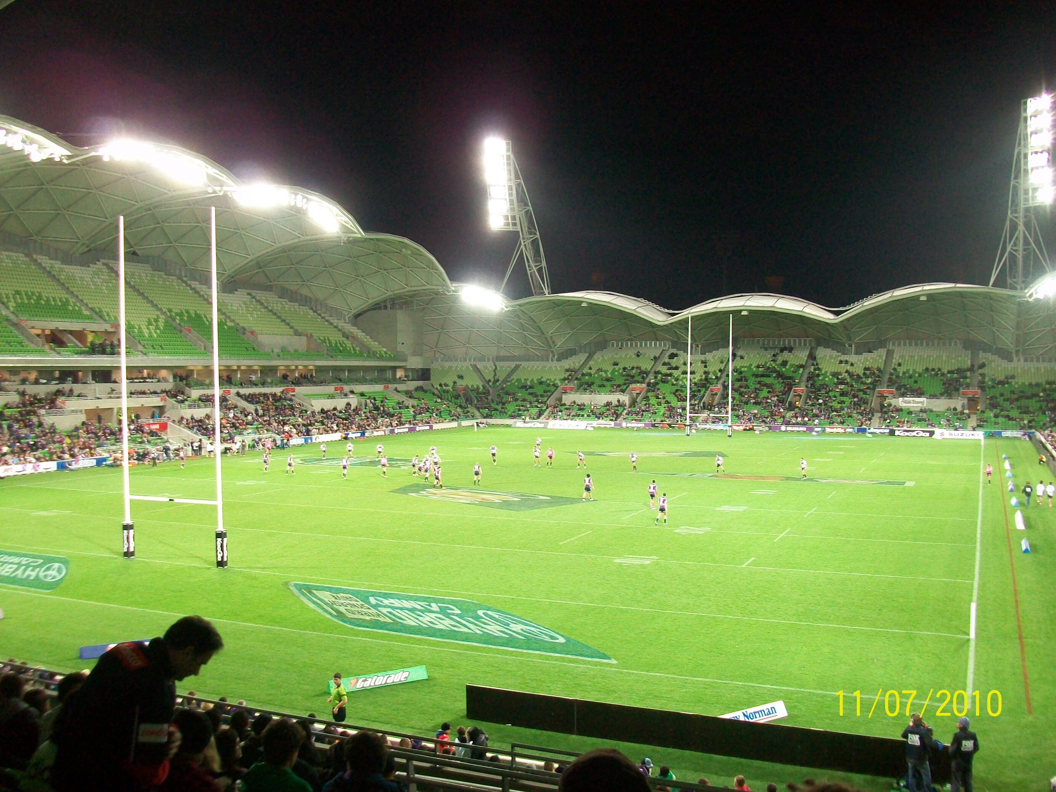 AAMI Park, Melbourne Storm v North Queensland Cowboys